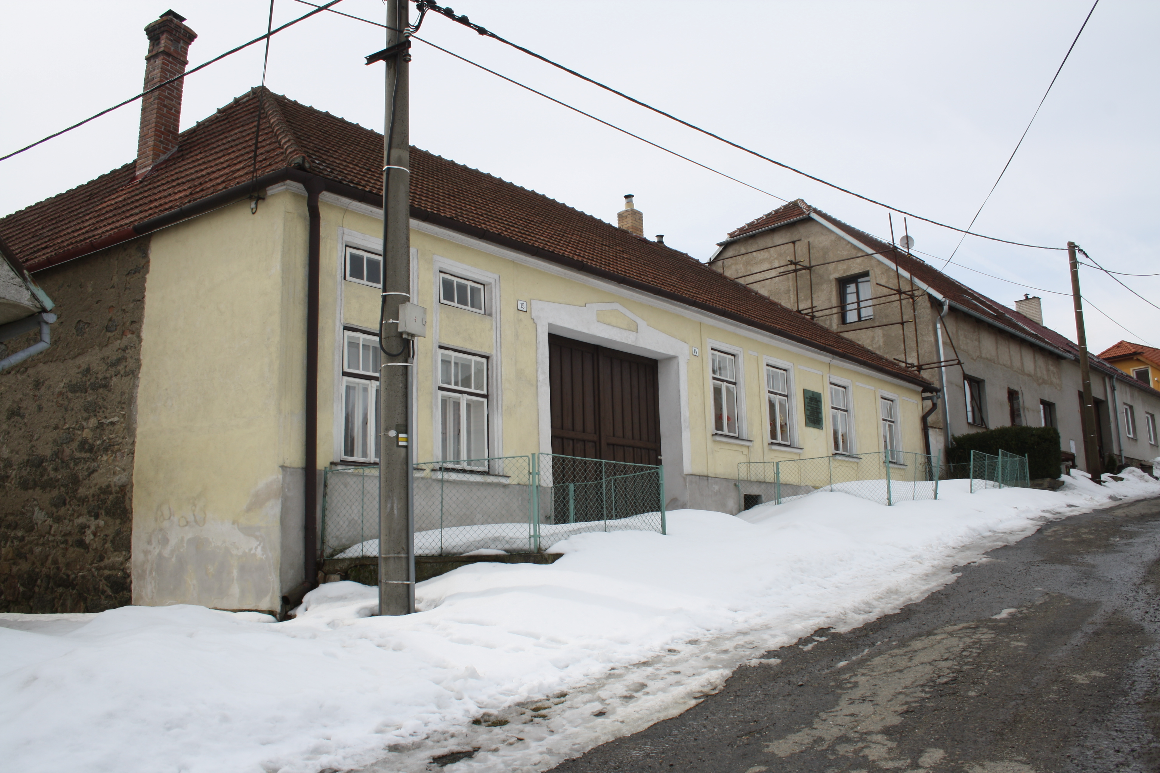 Native house of president Ludvík Svoboda in Hroznatín.